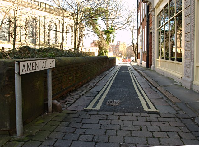 Amen Alley So named due to its proximity to the cathedral.